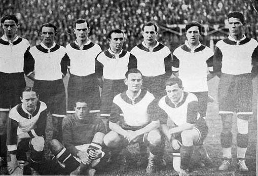 The Ferencvaros FC team that toured on Argentina.